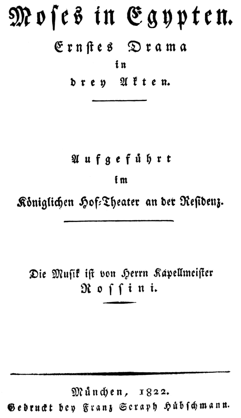 Gioachino Rossini - Mosè in Egitto - german titlepage of the libretto - Munich 1822